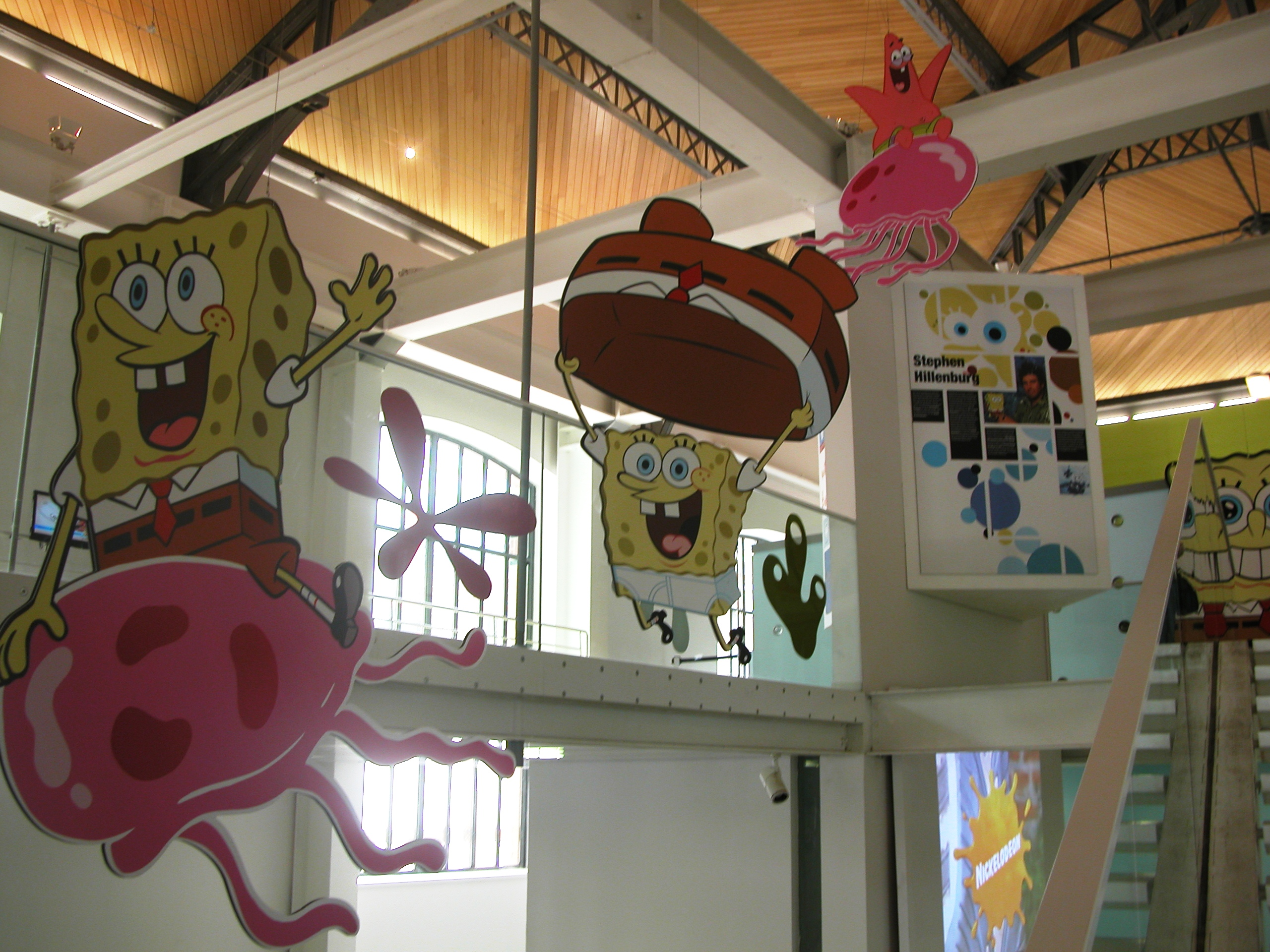 Exhibition Bob l'Eponge Pavilon de l'eau 2008